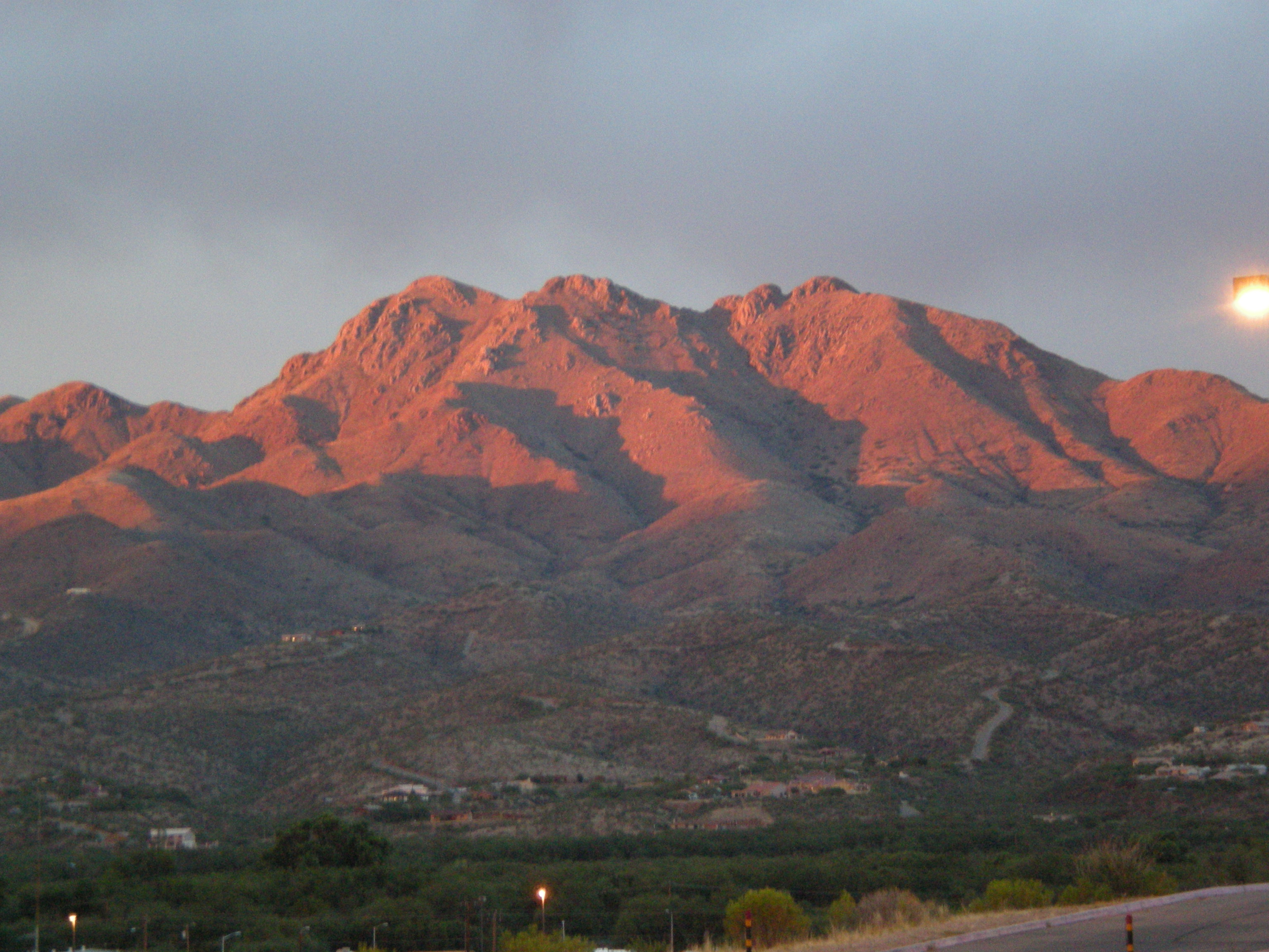 Rio Rico, AZ: Sunset from Rio Rico High School, 2008